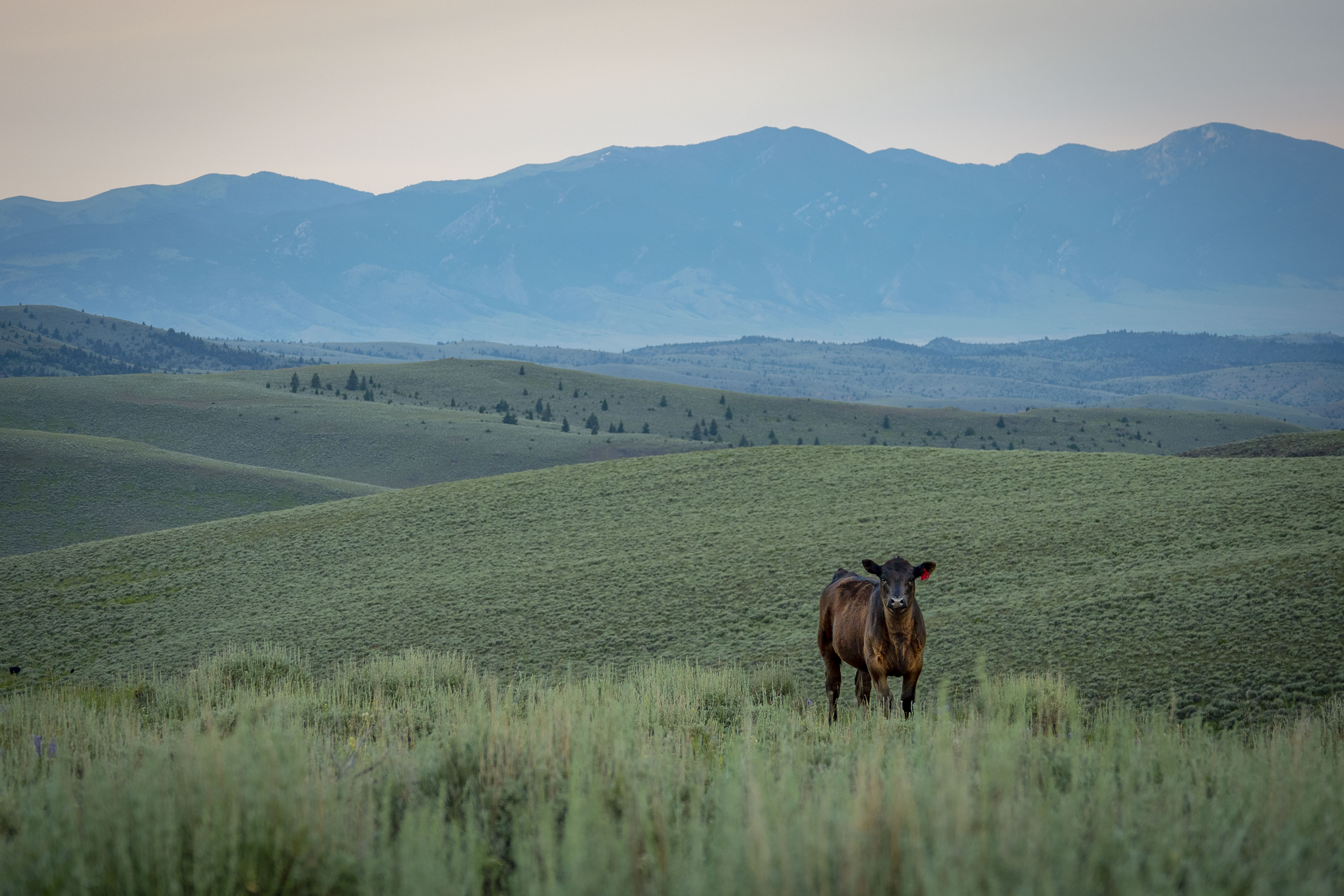 Angus Cattle graze on the Gravelly Mountain Range in the Beaverhead-Deerlodge National Forest. The Beaverhead-Deerlodge National Forest is the largest of the national forests in Montana, covering 3.35 million acres and throughout eight Southwest Montana counties. USDA Photo by Preston Keres